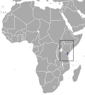 Xanthippe's Shrew (Crocidura xantippe) range